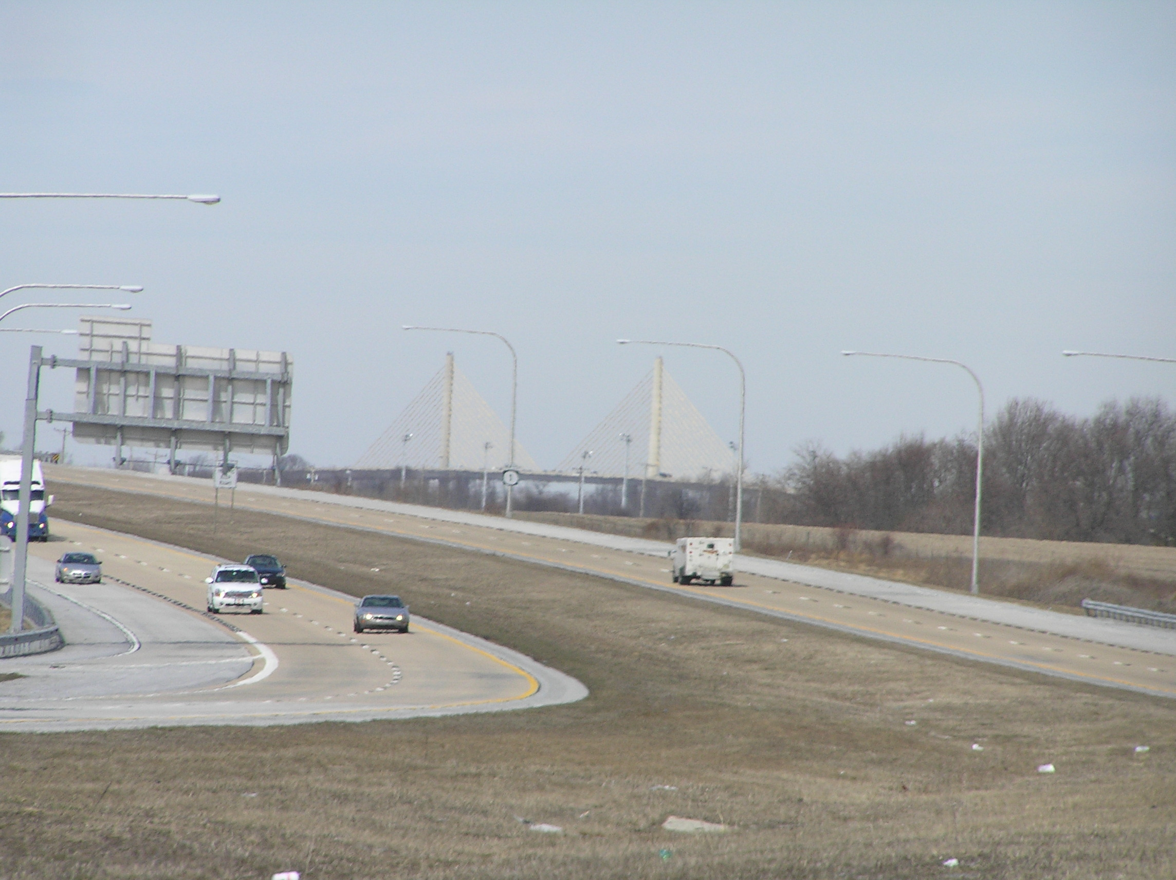 Route 1 (Route 1 Tpke) approaching the Senator William V. Roth, Jr. Bridge that crosses the Chesapeake and Delaware Canal near St. Georges, Delaware